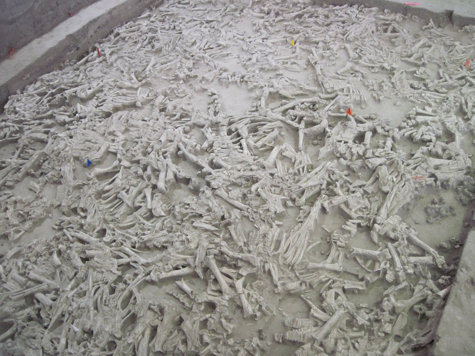 Close-up of part of the exposed Bison antiquus bones inside of the climate controlled building. - Hudson-Meng Bison Bonebed, northwest Nebraska in the Oglala National Grasslands. - 06.16.10. See Hudson-Meng Bison Kill